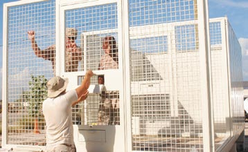 Holding_cell_for_captives_at_Camp_Justice,_Guantanamo.jpg